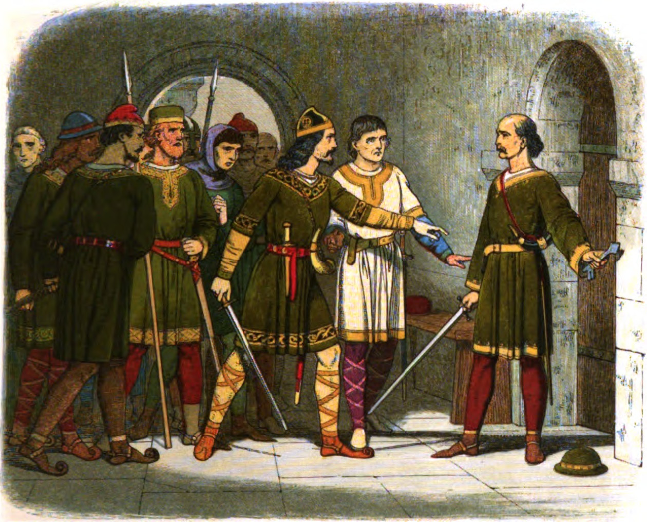 William de Breteuil stands guard over the treasury after the death of William II to defend the succession claim of Robert Curthose, the king's elder brother. The youngest brother, Henry, however, is determined to obtain the royal treasures and succeed as king.